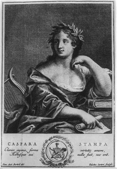 Portrait of Gaspara Stampa. Achille Bertarelli Print Collection, Castello Sforzesco, Milan.